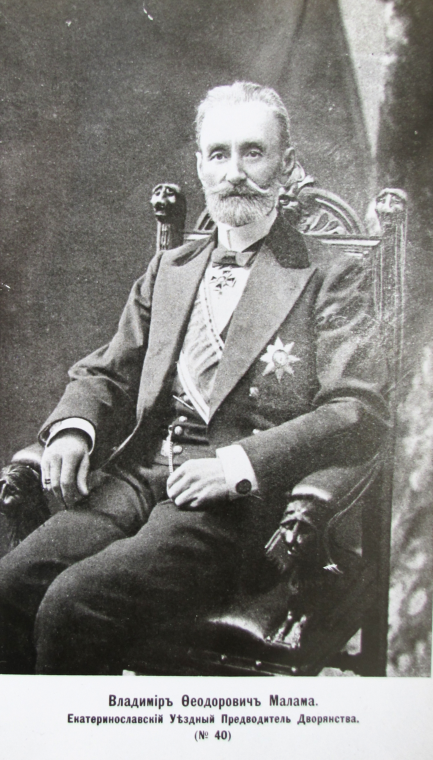 Vladimir Phedorovich Malama